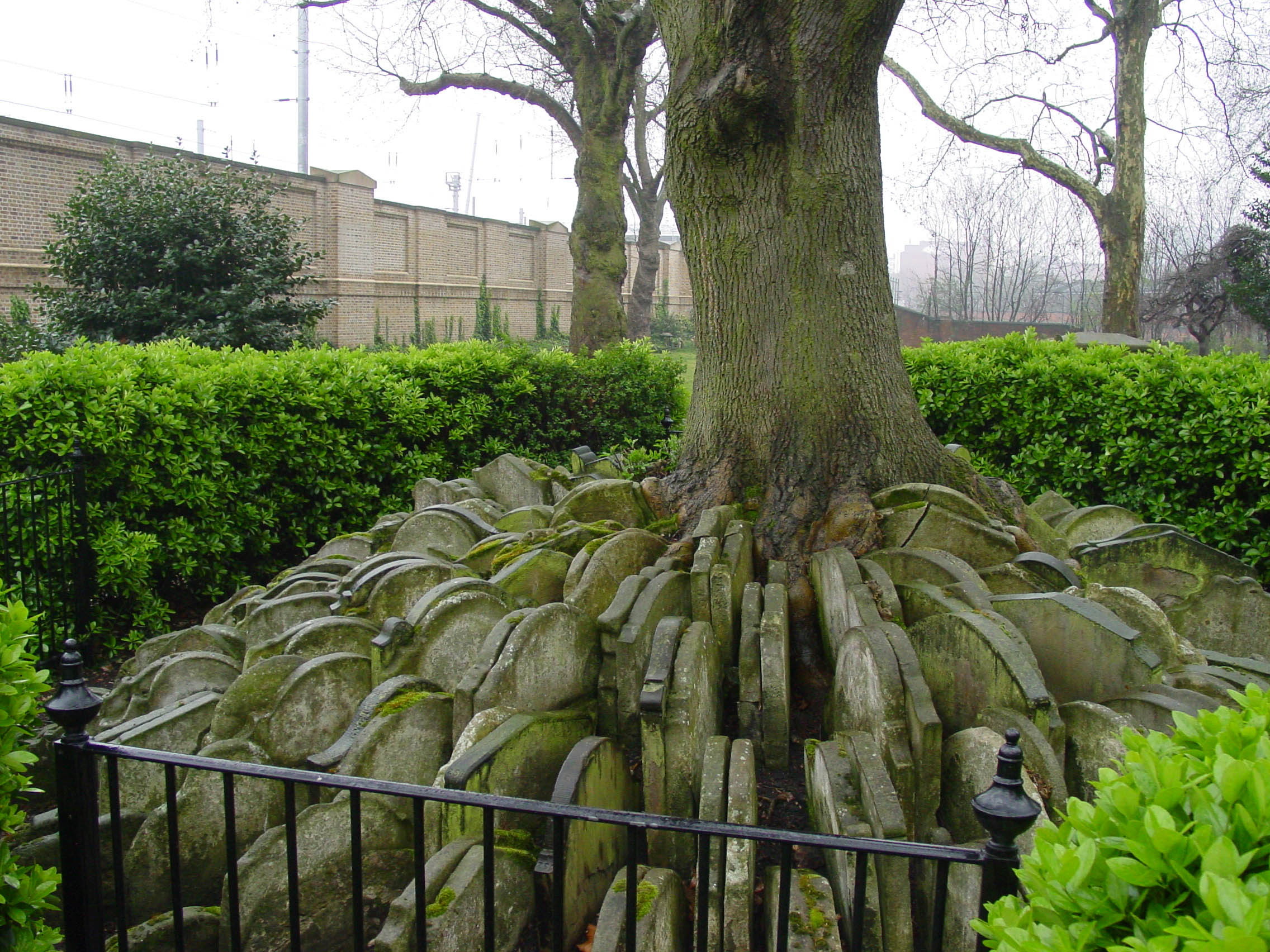 The "Hardy Tree" in the churchyard of St Pancras Old Church, growing up between gravestones moved there while Thomas Hardy was working here.